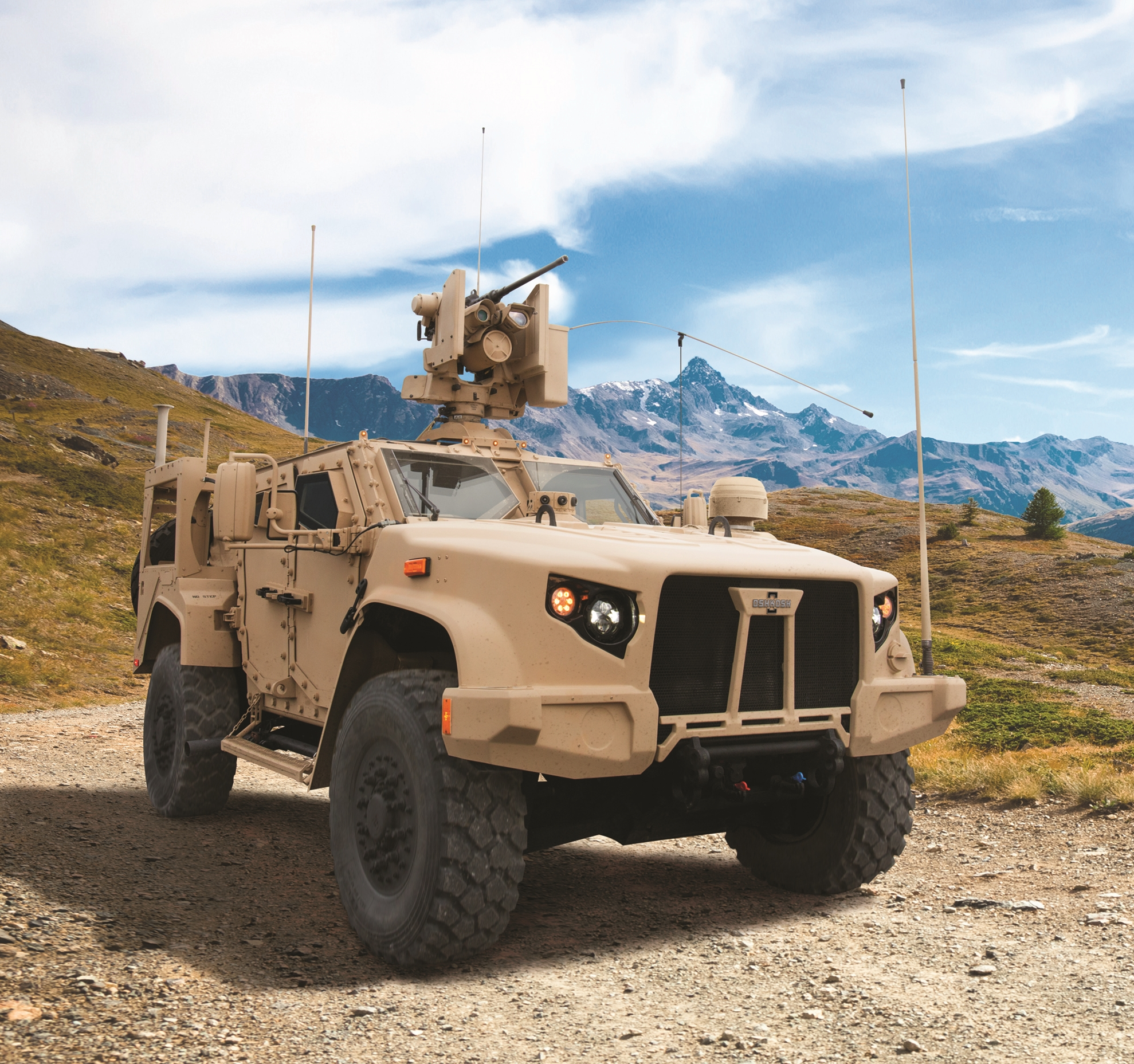 Oshkosh L-ATV (Light Combat Tactical All-Terrain Vehicle) with M153 CROWS II remote weapon station